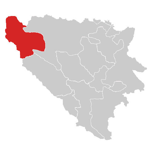 Blank map of Bosnia and Herzegovina, Una-Sana Canton highlighted